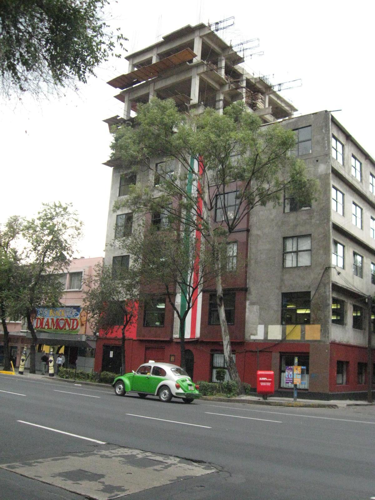 National Executive Committee's offices of the Partido del Trabajo (Labor Party) of Mexico, located at Avenida Cuauhtemoc 47 in Mexico City